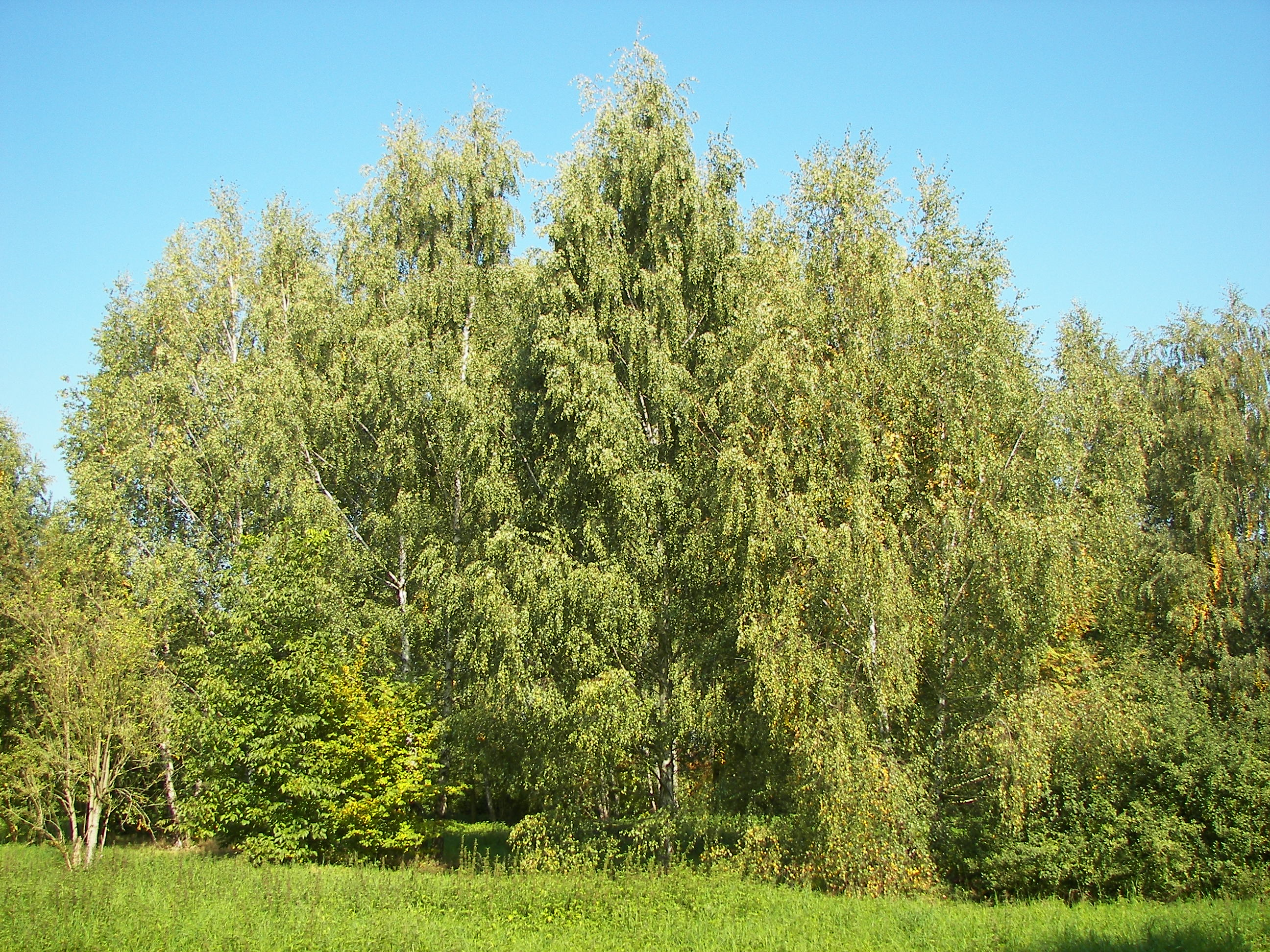 Silver Birchs (Betula pendula), Location: Arboretum Main-Taunus, Eschborn, Hesse, Germany